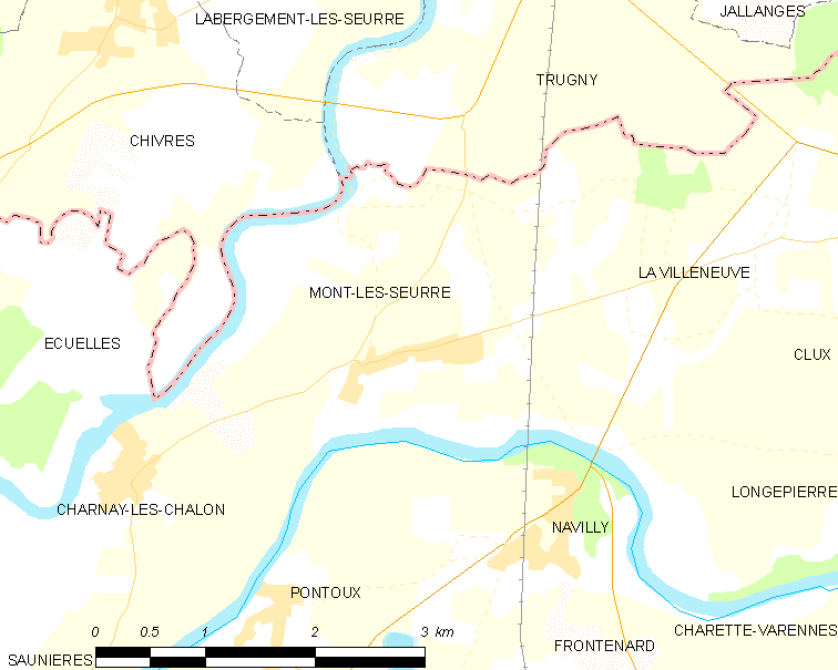 Map of French municipality